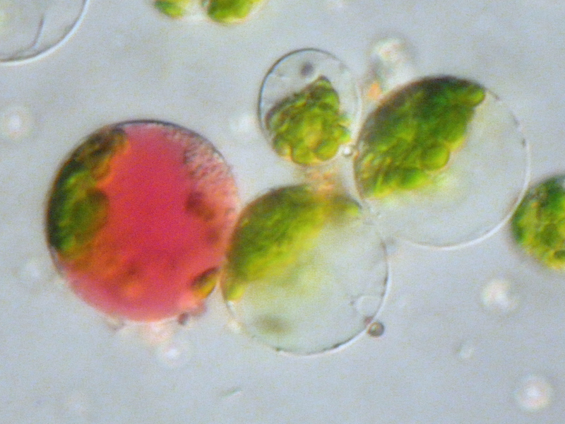 Protoplast fusion: Cells of Petunia sp. leaves (with chloroplasts). Left cell was merged with a protoplast from Impatiens neuguinea petals (with coloured vacuole). Photo was taken through the eye-piece of a microscope (10x object lense, 10x ocular).